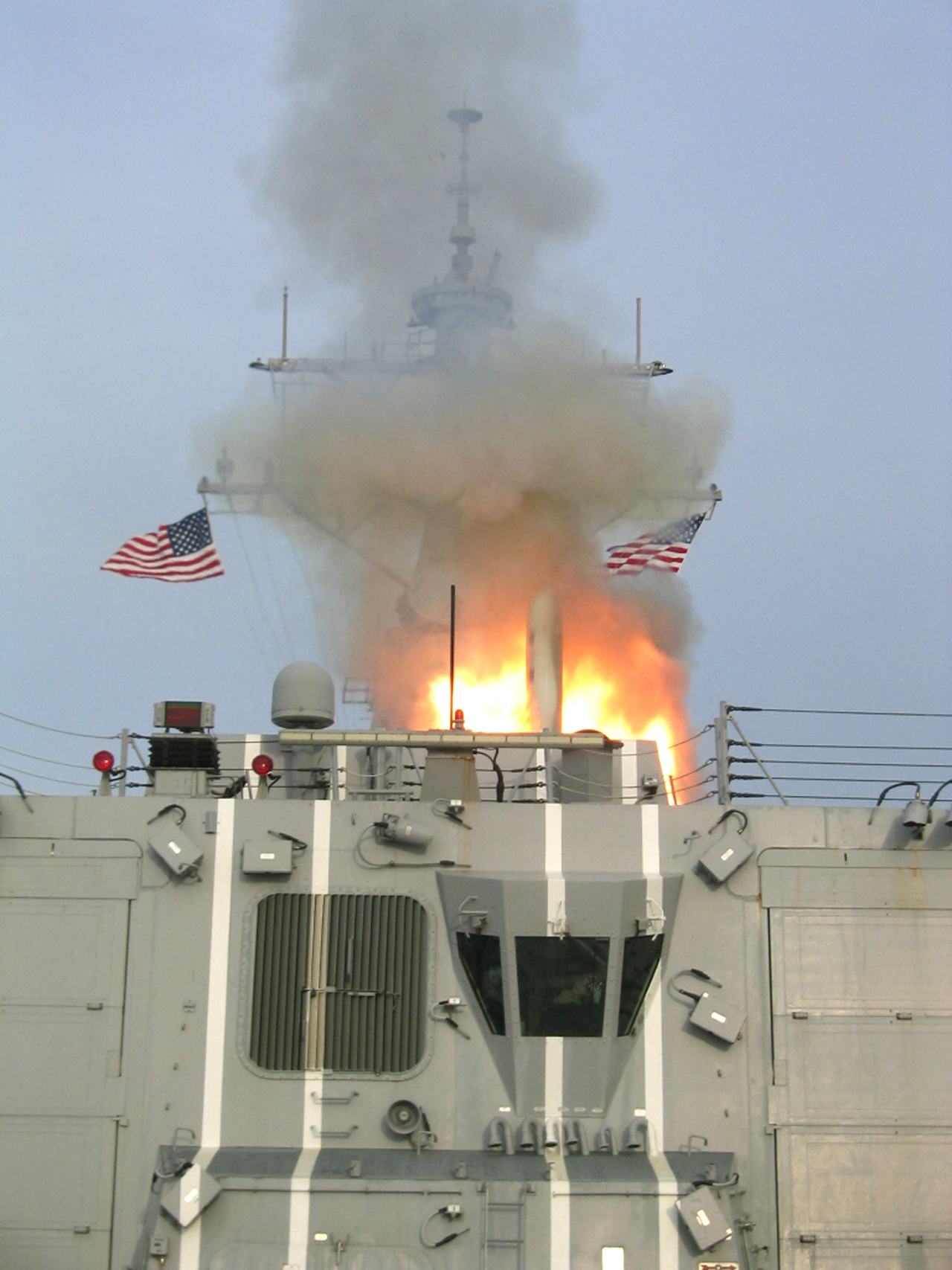 At sea aboard USS Winston S. Churchill (DDG 81) Mar. 23, 2003 -- A Tomahawk Land Attack Missile (TLAM) is launched from the guided missile destroyer USS Winston S. Churchill. Winston S. Churchill is operating in the eastern Mediterranean Sea conducting missions in support of Operation Iraqi Freedom. Operation Iraqi Freedom is the multi-national coalition effort to liberate the Iraqi people, eliminate Iraq’s weapons of mass destruction, and end the regime of Saddam Hussein. U.S. Navy photo by Fire Controlman 2nd Class David Foley. (RELEASED)